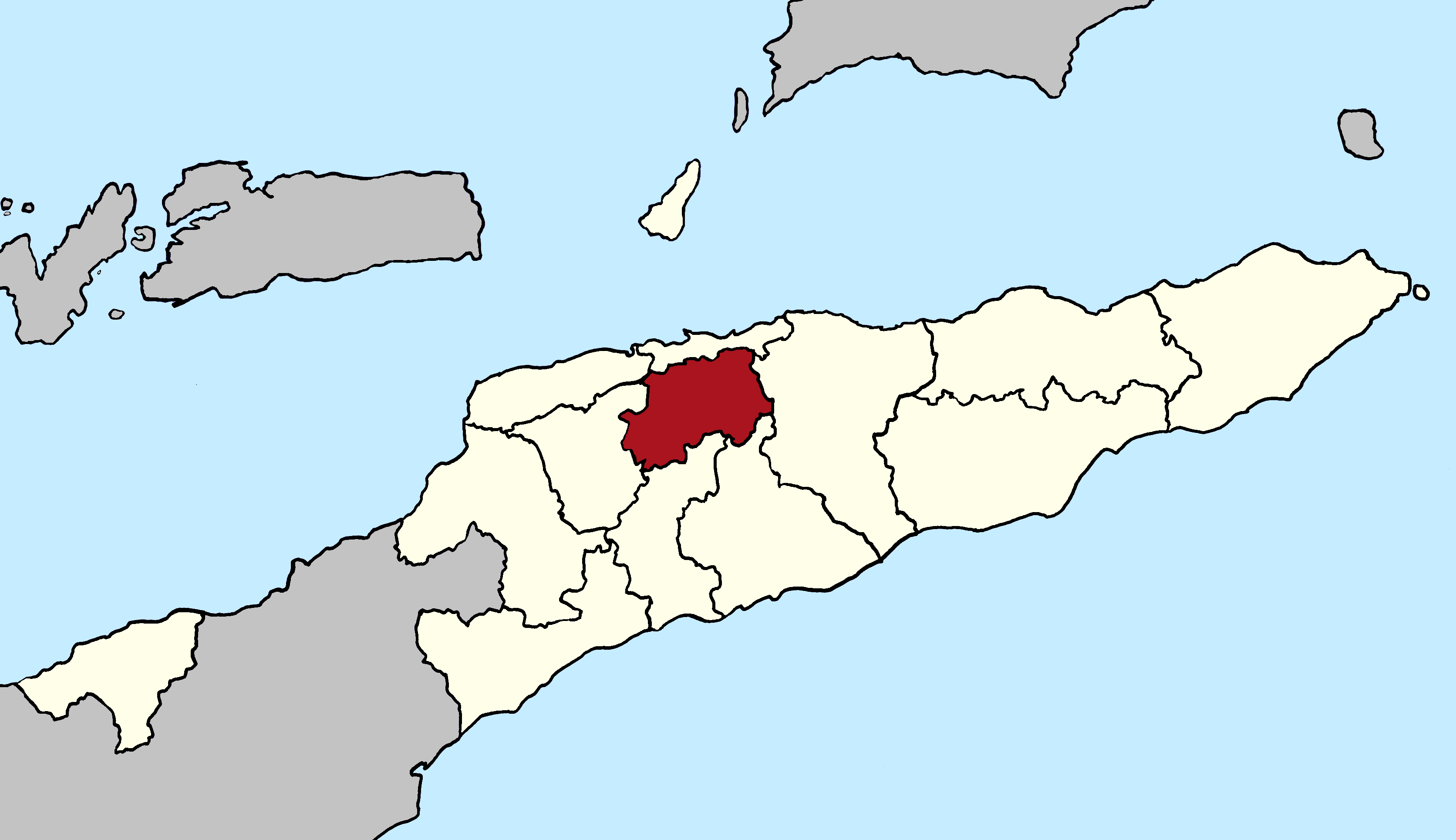 Locator map of Aileu municipality since 2015, East Timor